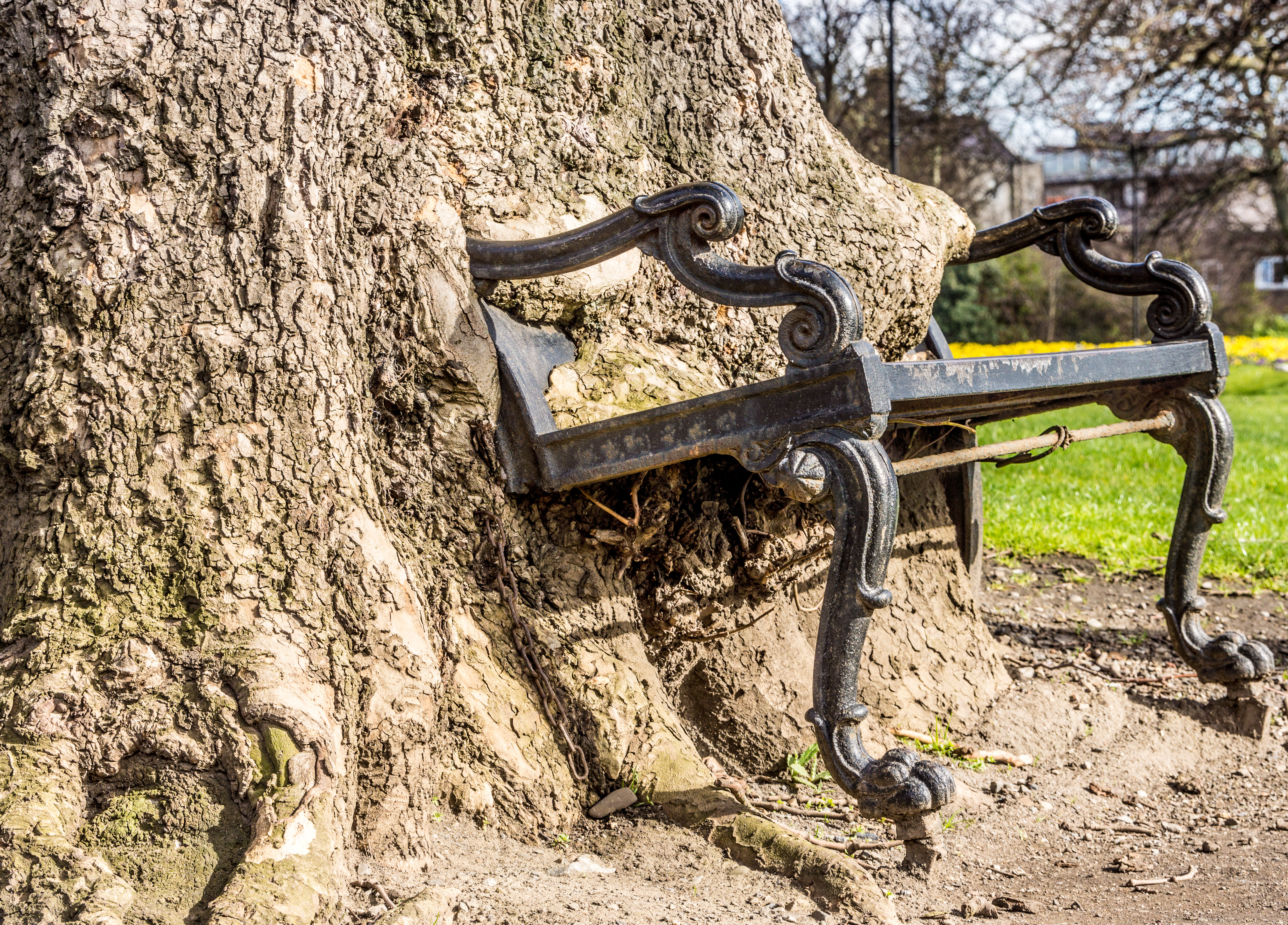 Hungry Tree at King’s Inns, Dublin. A London plane that appears to be consuming a bench.